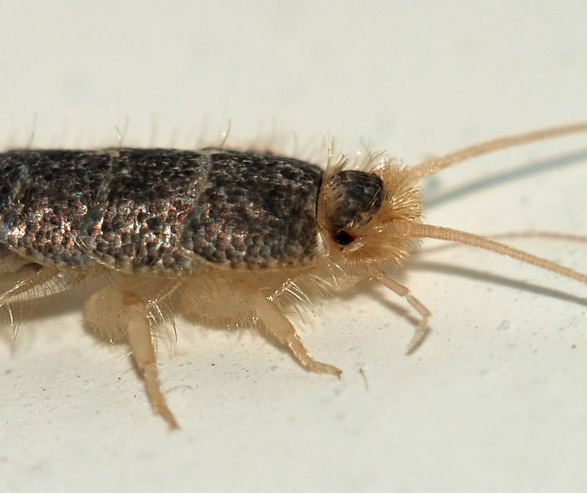 A Grey Silverfish, possibly a Ctenolepisma longicaudata